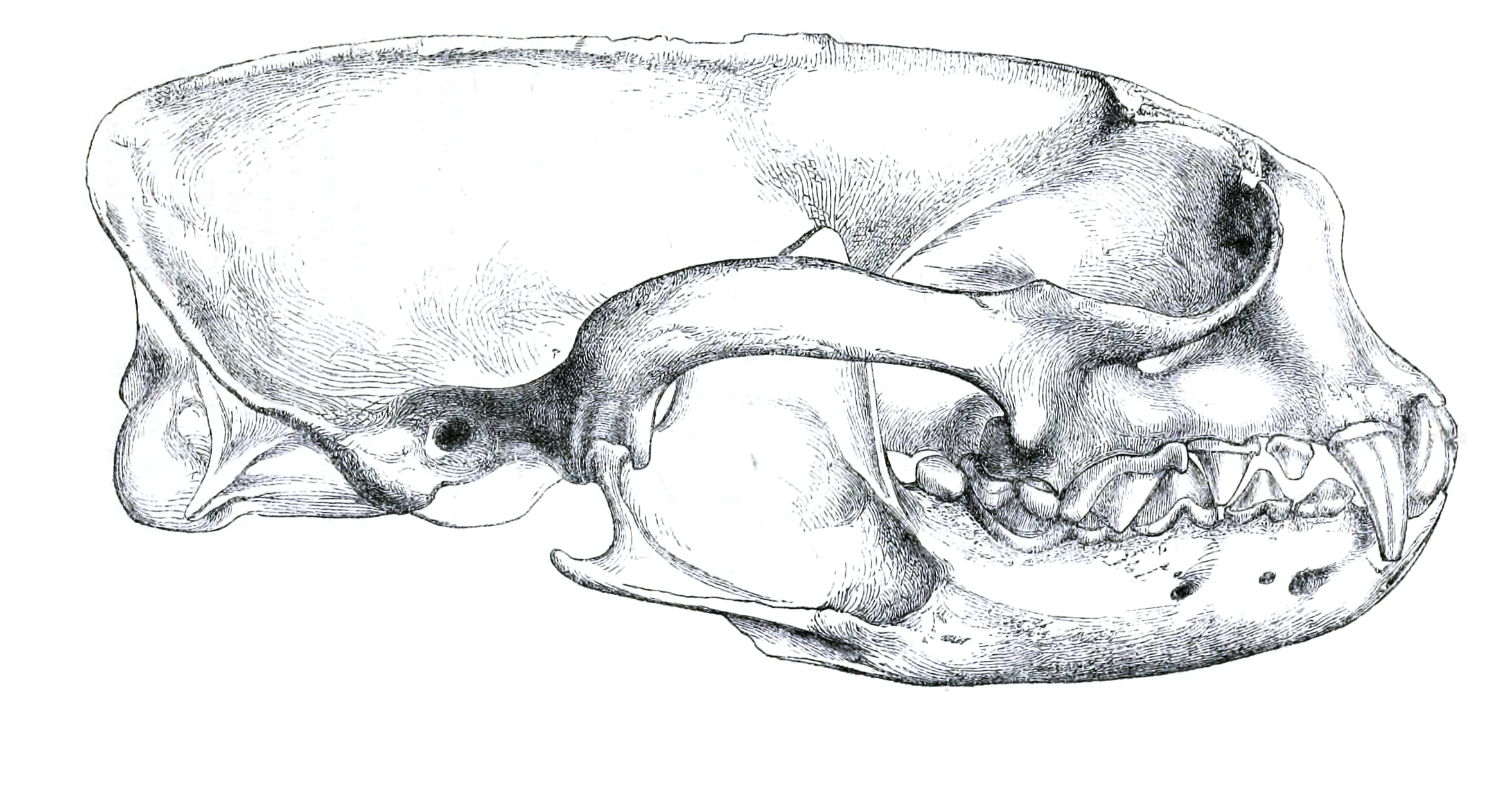 Giant Otter, skull from lateral